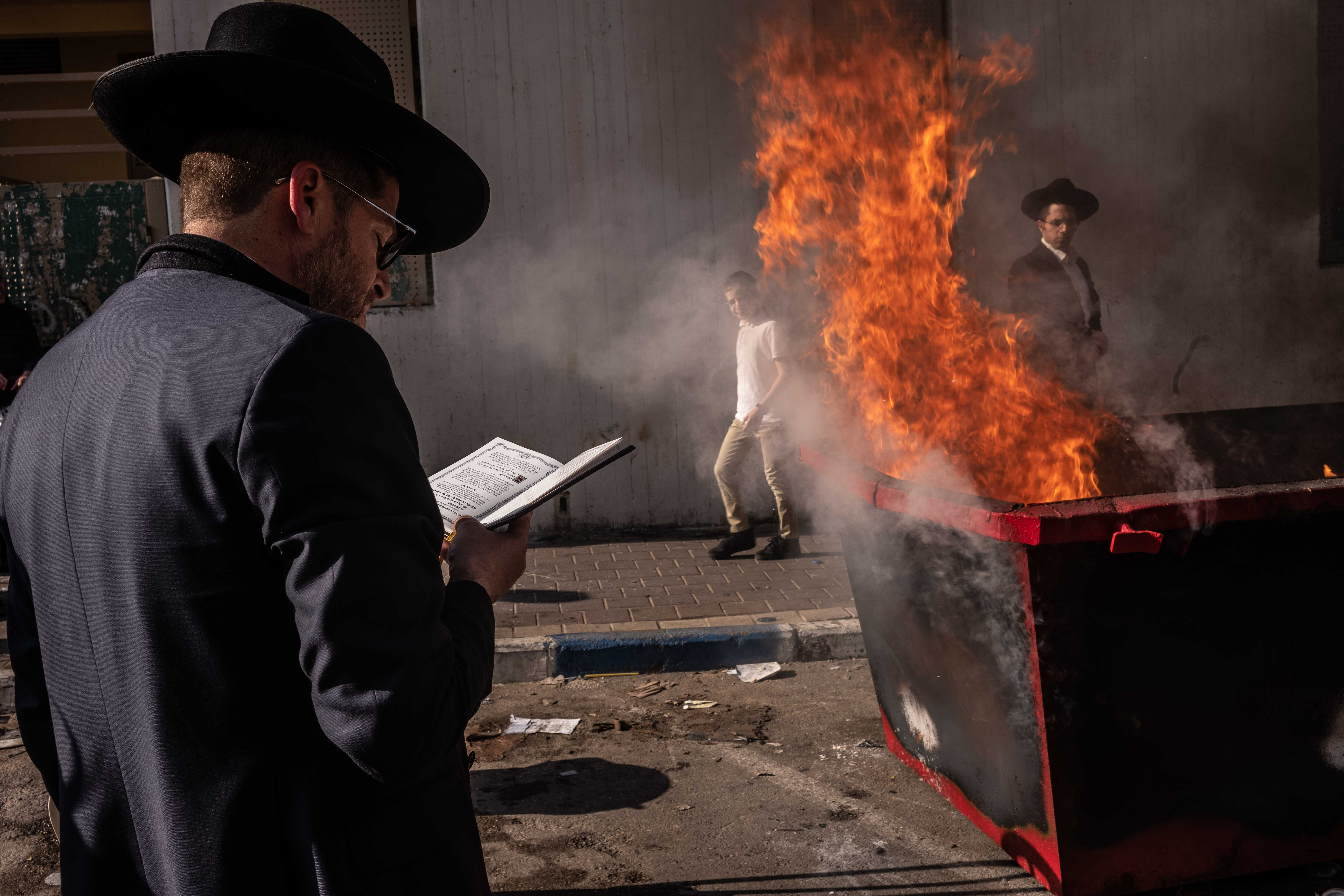 Passover Eve - Bnei Brak